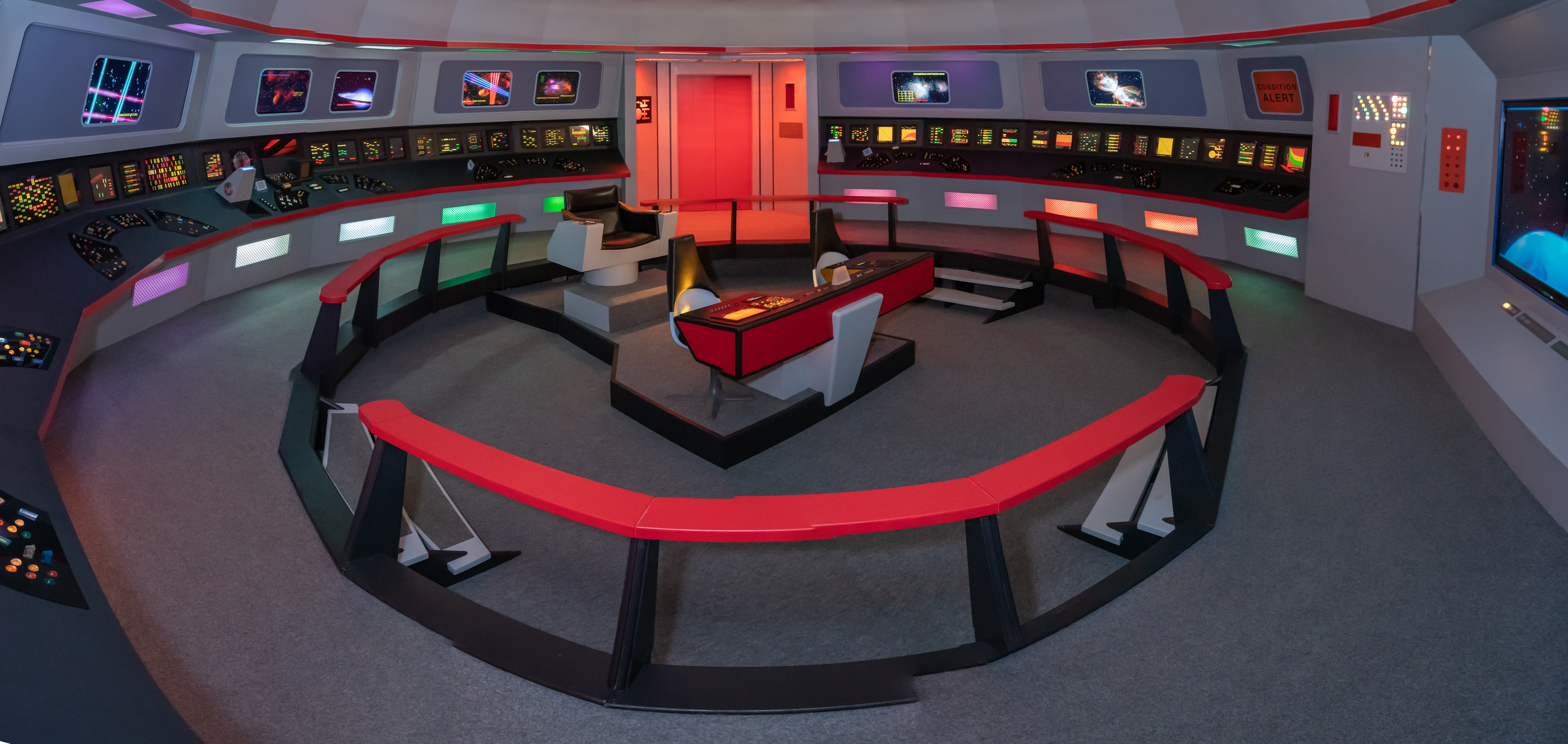 The set of the bridge of the USS Enterprise NCC-1701.